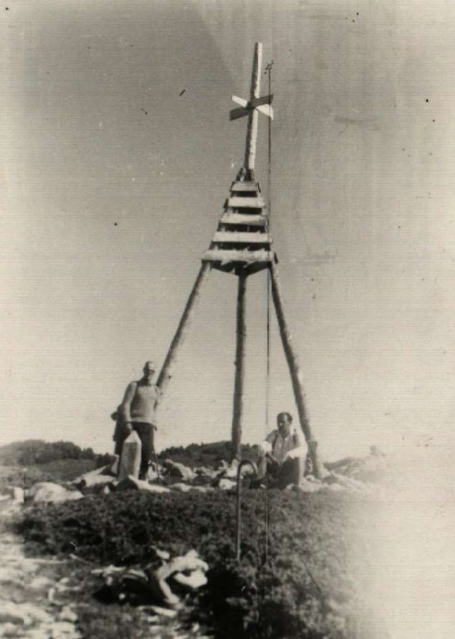 The highest peak of Rhodope mountains Golyam Perelik (2191 m).